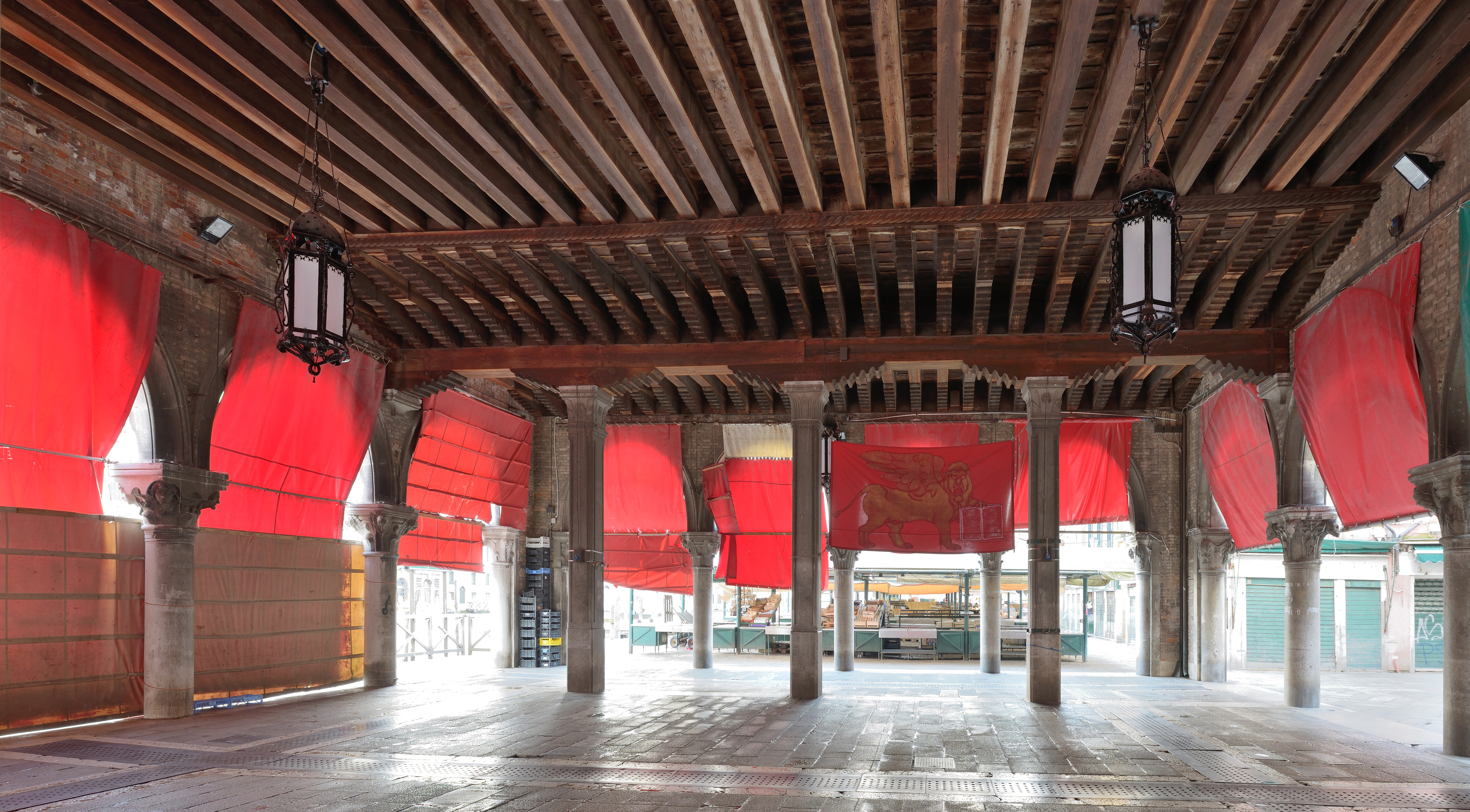 Inside view of the Pescaria fish market (Gothic Revival, 20th century) in Venice